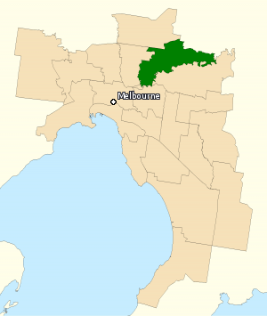 This image incorporates data that is: © Commonwealth of Australia (Australian Electoral Commission) 2009 Division of Jagajaga 2010